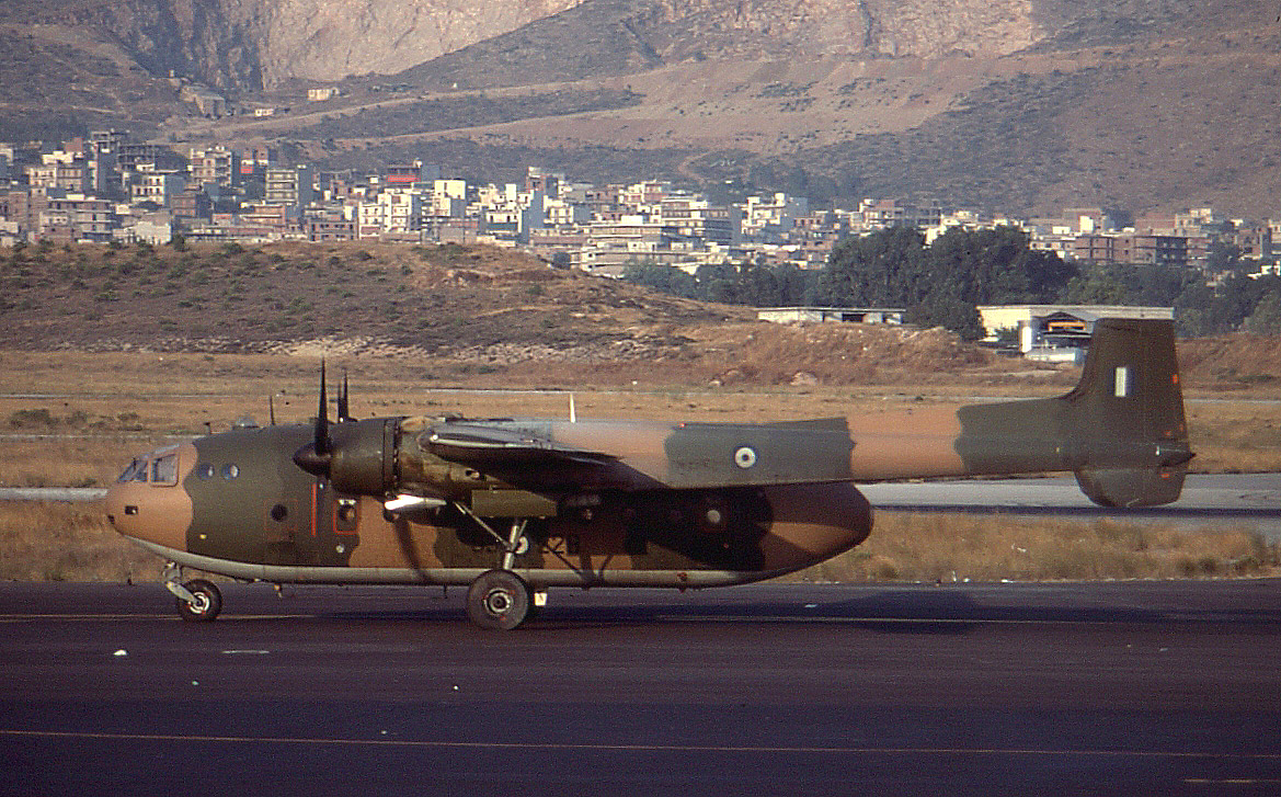 ​​"Noratlas 53-228 on training mission at Ellinikon. Operated by the Hellenic Air Force and based at Athens Elefsis AFB from 1970 until the mid 80's". The Nord Noratlas was a 1950s French military transport aircraft intended to replace the older types in service at the end of World War II. Several hundred were produced in a run lasting over a decade, finding a wide variety of uses. In 1970, the Hellenic Air Force received 50 surplus Noratlases from Germany as World War II compensations and NATO help. These Noratlases were based at Elefsis AFB near Athens, with the 354th Tactical Airlift Squadron. 53-228 wore the marking 53+28 during her military career with the German Air Force. Accordingly, in 1947 Direction Technique Industrielle organized a design competition for a medium-weight cargo aircraft offering great flexibility in use. Société Nationale de Construction Aéronautique du Nord (SNCAN) answered with the Nord 2500, while their competitors, Breguet and SNCASO, offered the BR-891R Mars and SO-30C respectively. The Nord 2500, with its rear-opening clamshell doors allowing ease of loading, was considered the most promising, and DTI ordered two prototypes on April 27, 1948. The first prototype took to the air on September 10, 1949 powered by two Gnome-Rhône 14R engines of 1,600 hp driving 3-bladed variable-pitch propellers, but it was found to be too slow for most applications. The second prototype replaced the 14Rs with two SNECMA-built Bristol Hercules 738/9 2,040 hp engines driving four-bladed propellers, and this model was rechristened the Nord 2501. DTI ordered 3 more preproduction Nord 2501s, which they flight-tested extensively against the similar Fairchild C-82 Packet. The N-2501 was found superior, and the first 34 were ordered on July 10, 1951. After an eventual production run of some 425 planes, the last Noratlas was constructed in 1961.